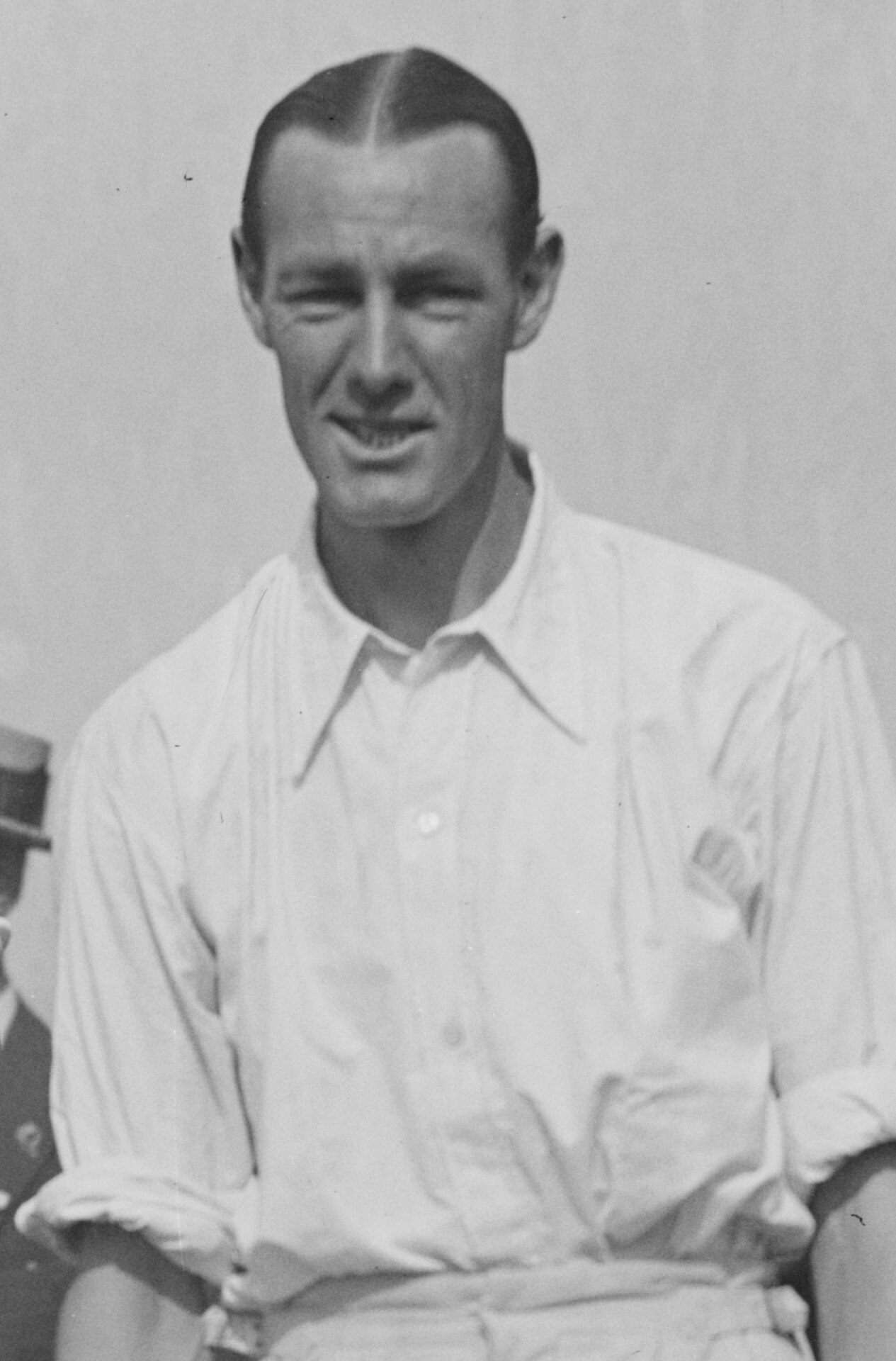 Bain News Service, publisher. Tilden and Anderson (tennis) 1 negative : glass ; 5 x 7 in. or smaller. Notes: Title from unverified data provided by the Bain News Service on the negatives or caption cards. Forms part of: George Grantham Bain Collection (Library of Congress). General information about the Bain Collection is available at Temp. note: Batch seven loaded. Format: Glass negatives. Repository: Library of Congress Prints and Photographs Division Washington, D.C. 20540 USA General information about the Bain Collection is available at Persistent URL: [1] Call Number: LC-B2- 2263-11